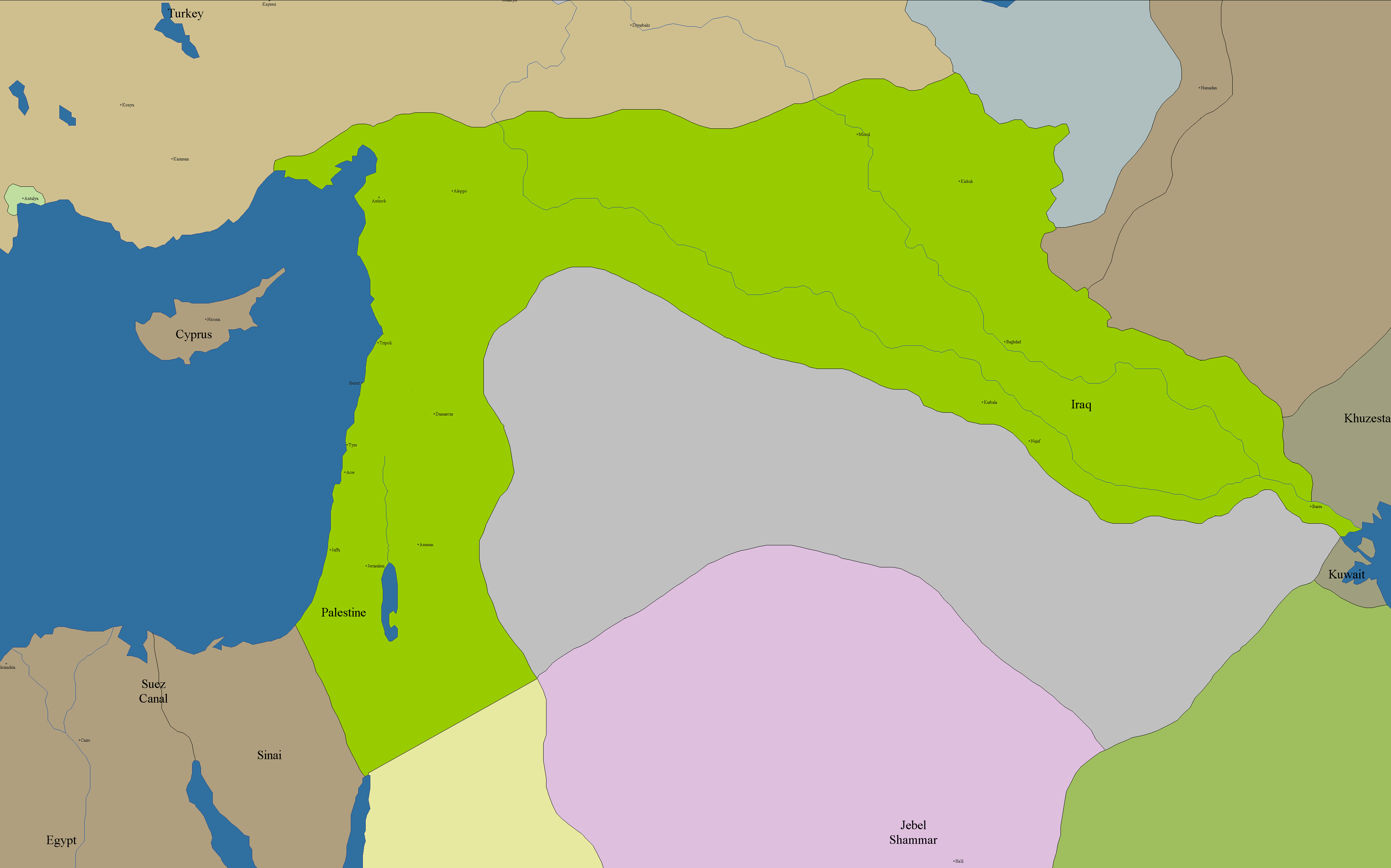 THE ARAB STATE as promised to the Hashemites by the Protocol of Damascus (1914), later disrupted by the Sykes-Picot agreement and League of nations mandates.